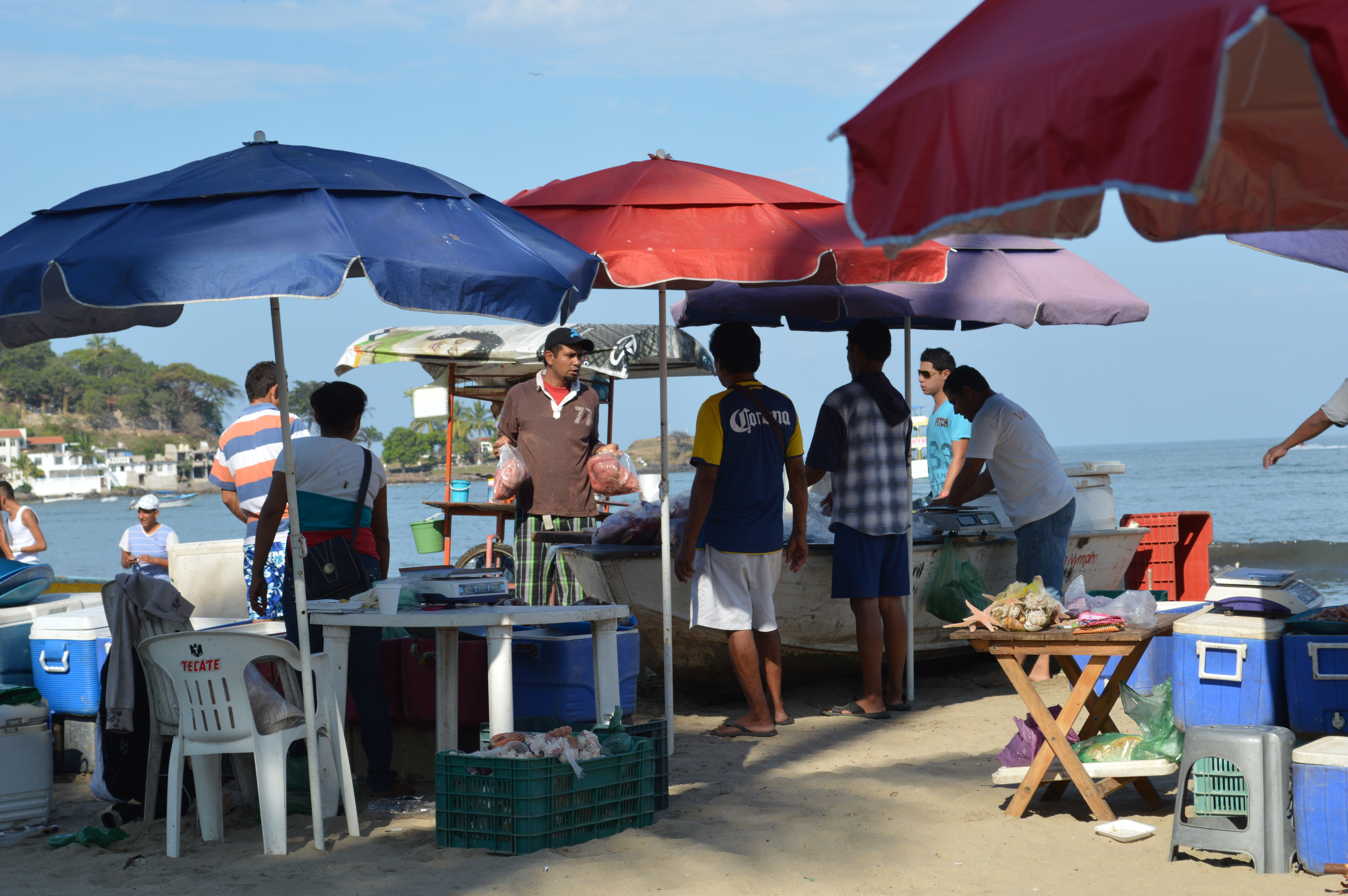 Fishermen selling catch on the beach at Guayabitos, Nayarit, Mexico